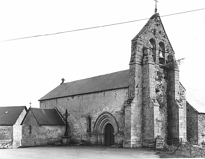 Eglise de féniers